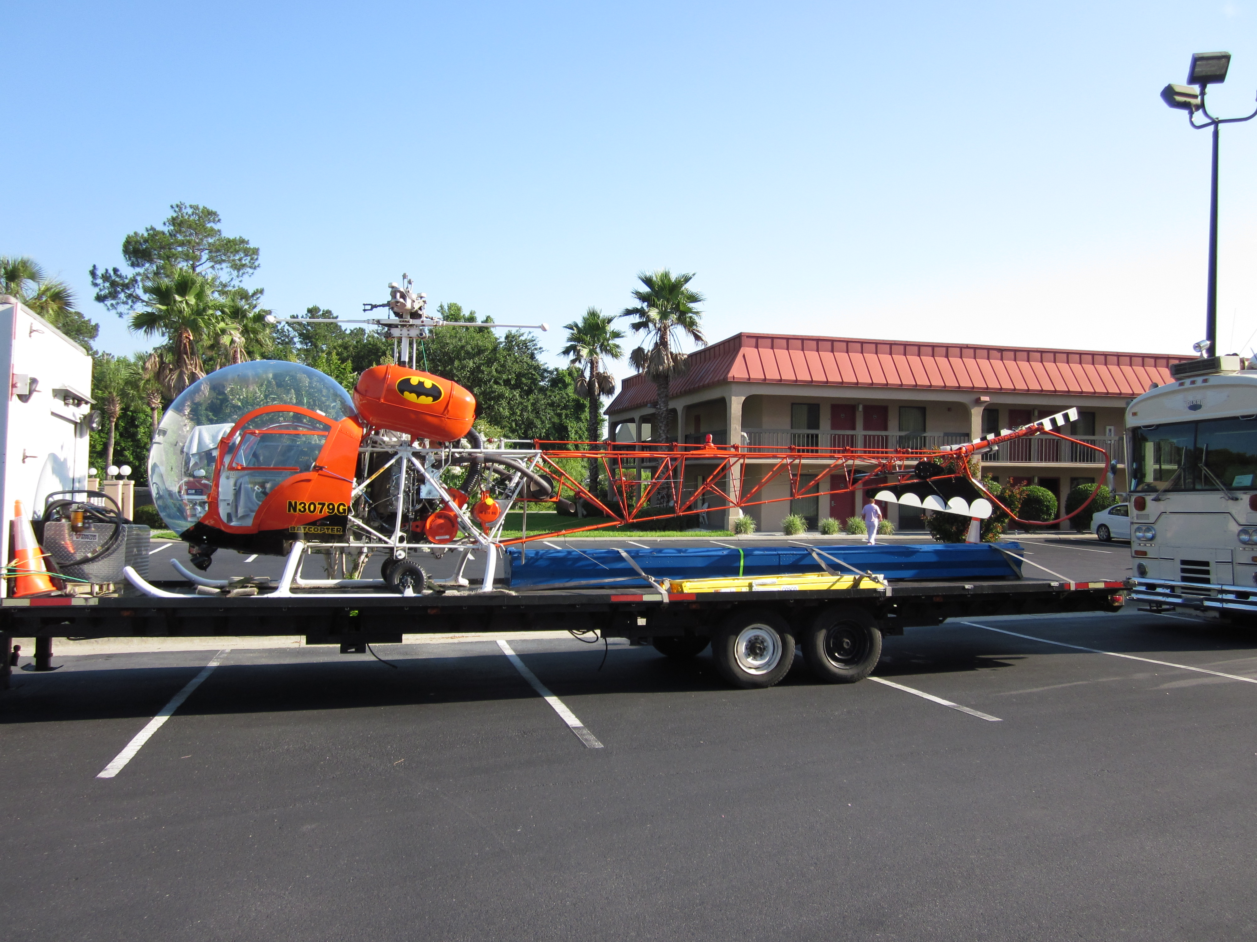 Bell 47 Helicopter with "Batman" logo, seen in motel parking lot in Lake City, Florida.